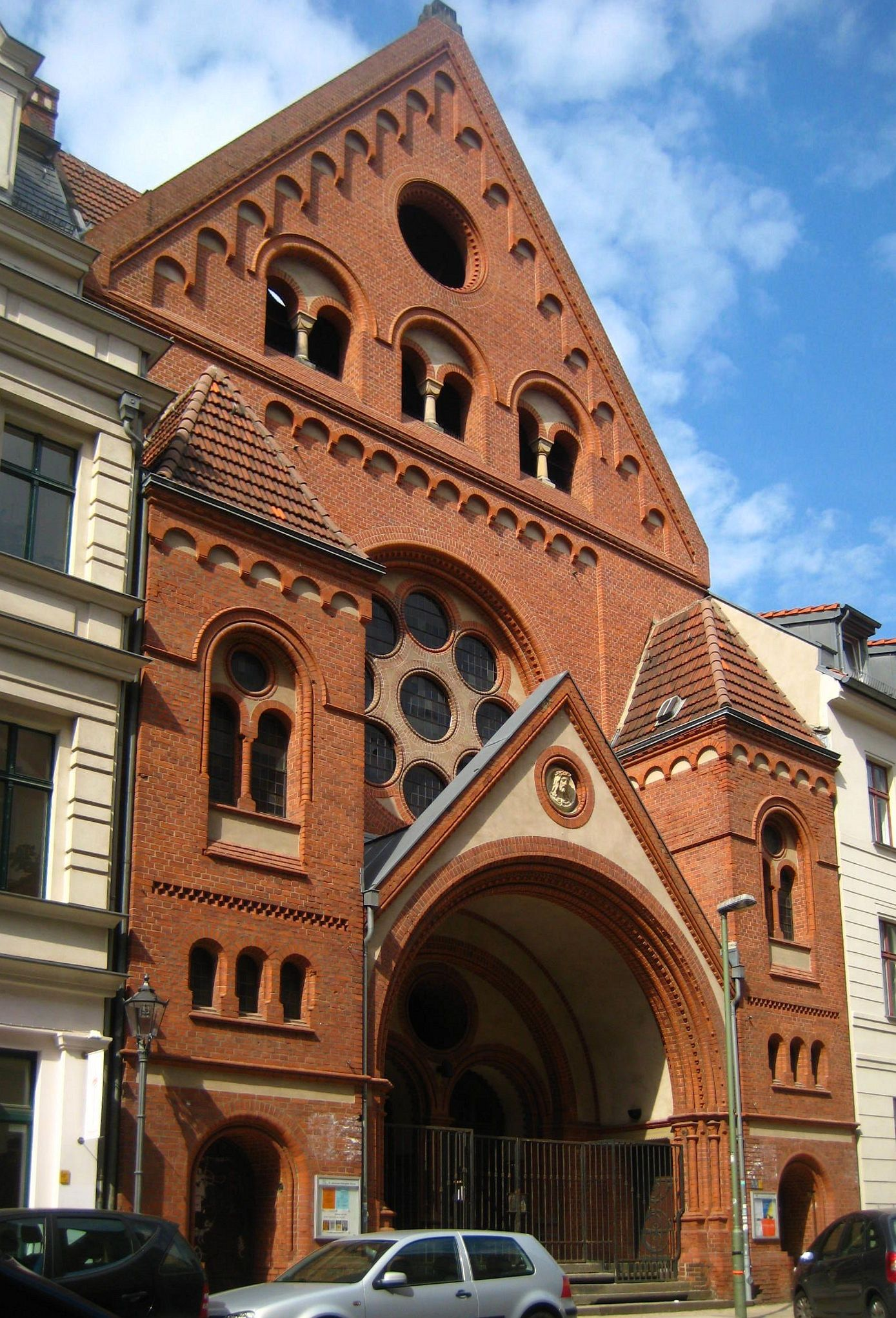 The Saint John the Evangelist Church at Auguststraße No. 90 in Berlin-Mitte. It was built from 1898 to 1900 to a design by the architect Max Spitta. The church has been designated as a historic landmark.